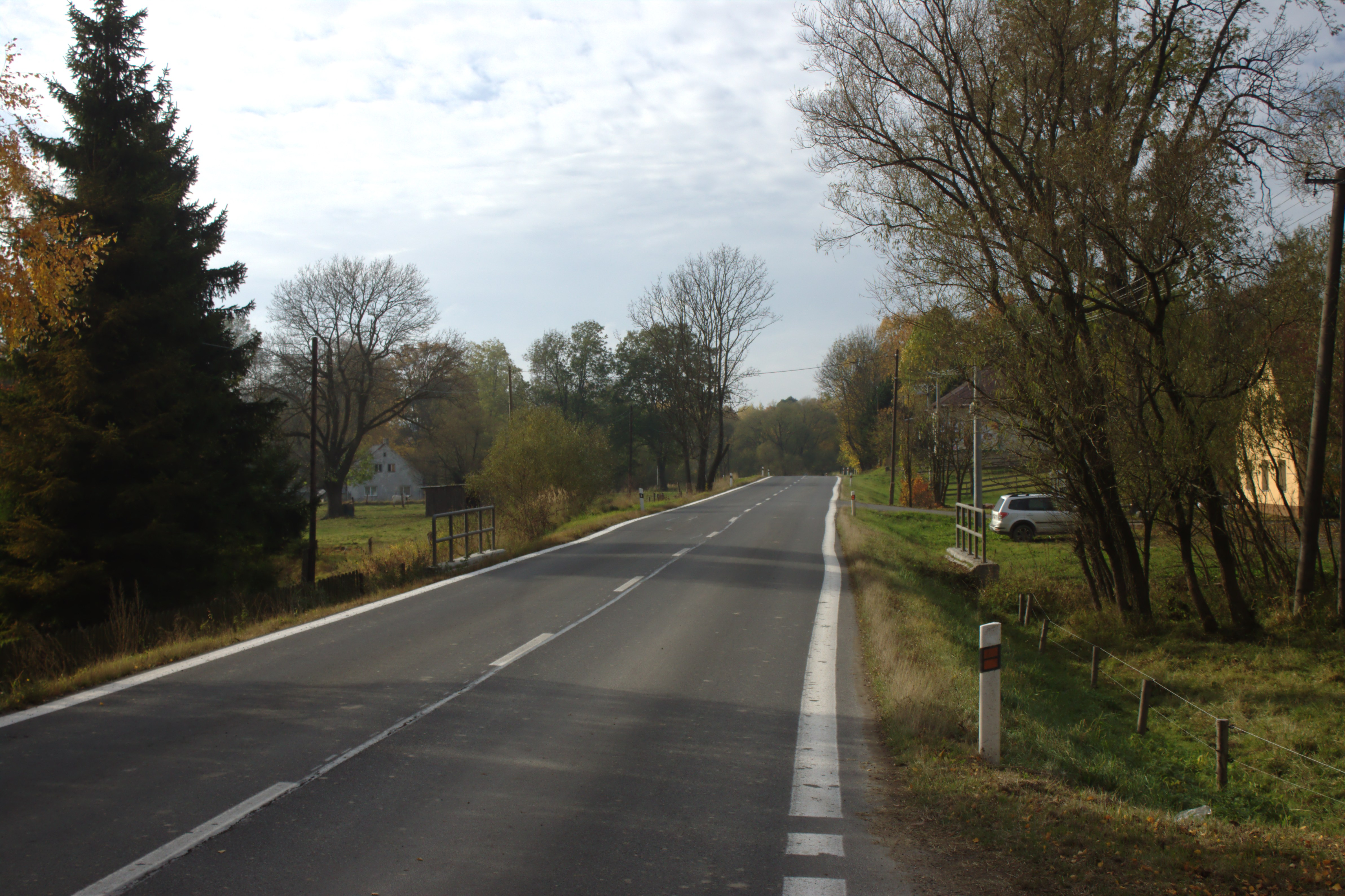 Main road in the village of Čabová, situated near Moravský Beroun, CZ